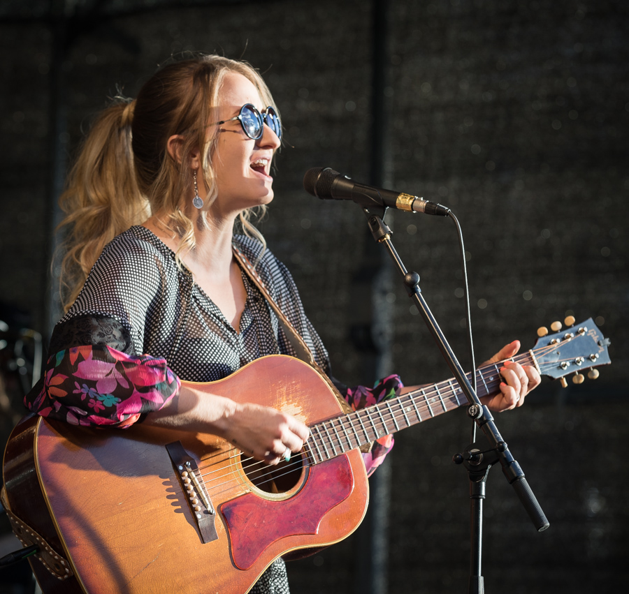 Margo Price at the minor stage in the Vigeland Park. The concert was part of Piknik i Parken and took place on 24. June 2017 in Oslo. Lineup: Margo Price (guitar / vocal), Unidentified (keyboard), Unidentified (bass guitar), Unidentified (guitar), Unidentified (lap steel guitar) and Unidentified (drums).